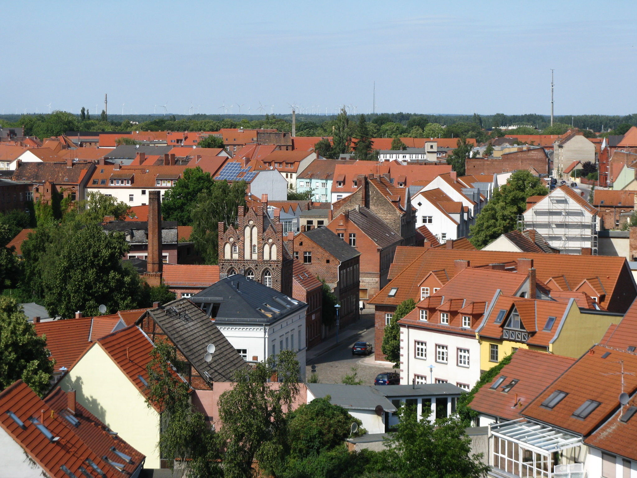 City view from church tower in Wittenberge, disctrict Prignitz, Brandenburg, Germany